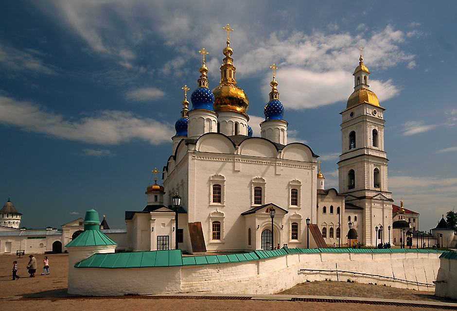 Tobolsk